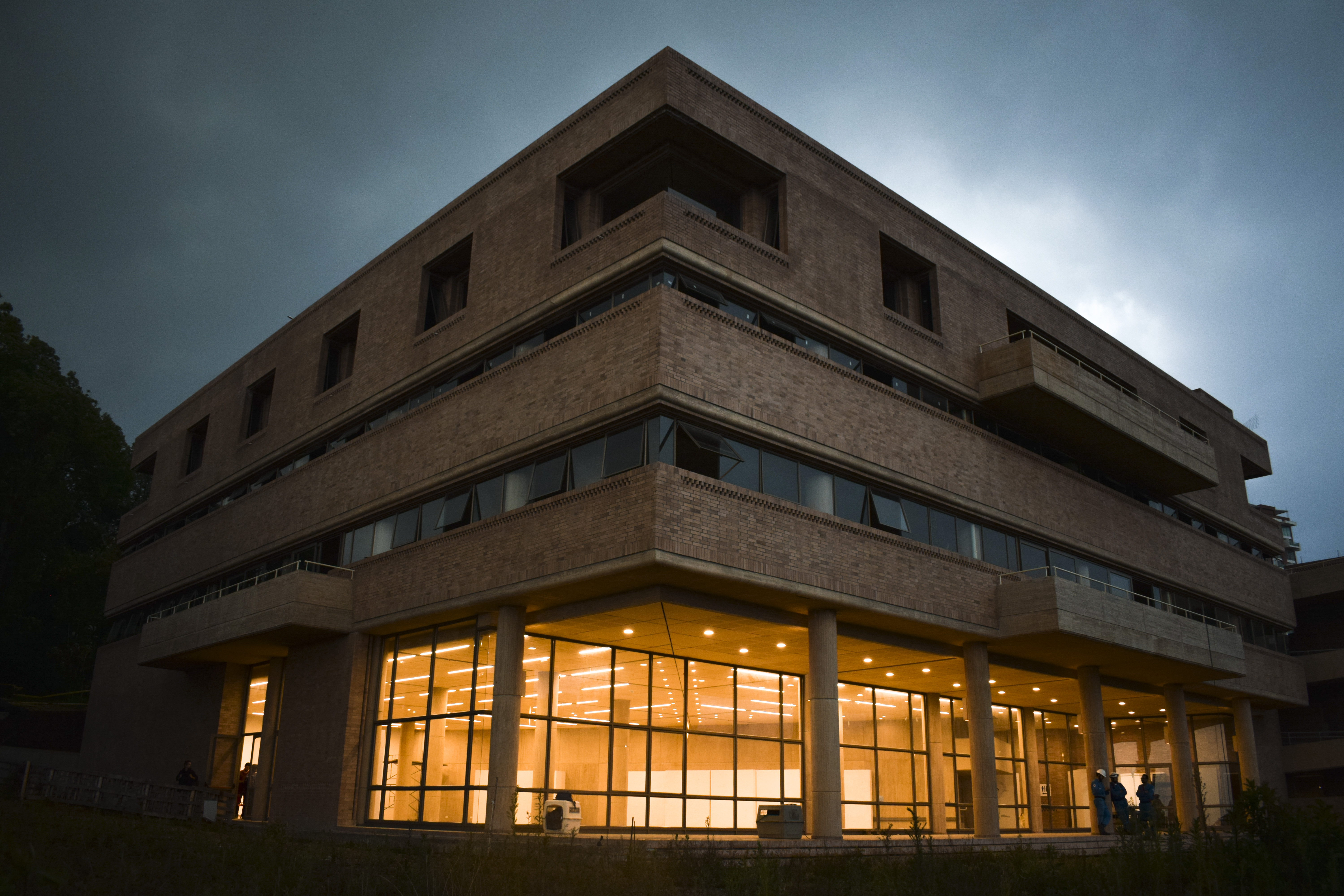 Imagen Exterior Centro Cultural Universitario Rogelio Salmona